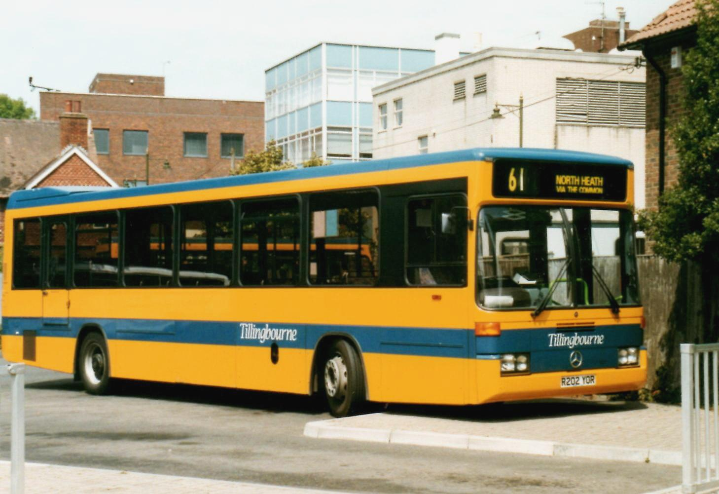 Tillingbourne Bus Company bus 202 (reg. R202 YOR), a 1997 Mercedes-Benz O 405 single-decker with Optare Prisma bodywork. It was delivered new to the company. It's pictured here in service in Horsham in May 1999. Tillingbourne closed down two years later following finiancial problems.